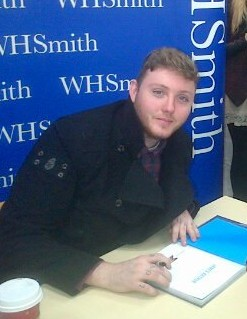 James Arthur at a book signing session at WHSmith in Middlesbrough on the 9 January 2013.